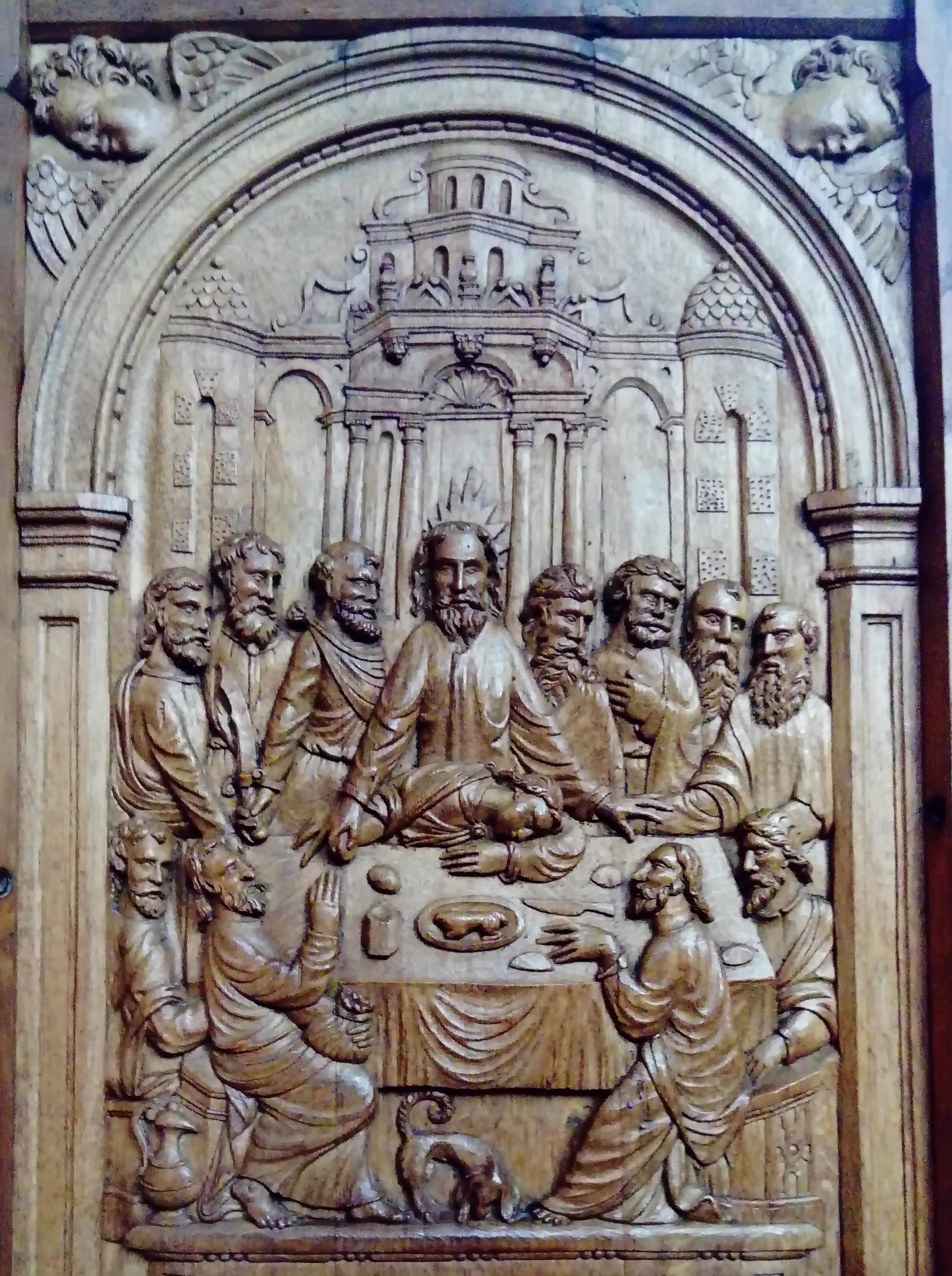 Biblical scene of the Last Supper carbed in a wooden panel exhibited in Le Mans Cathedral in France. .